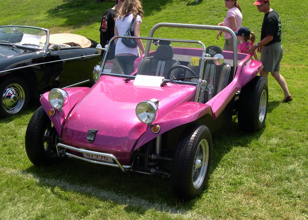 Meyers Manx